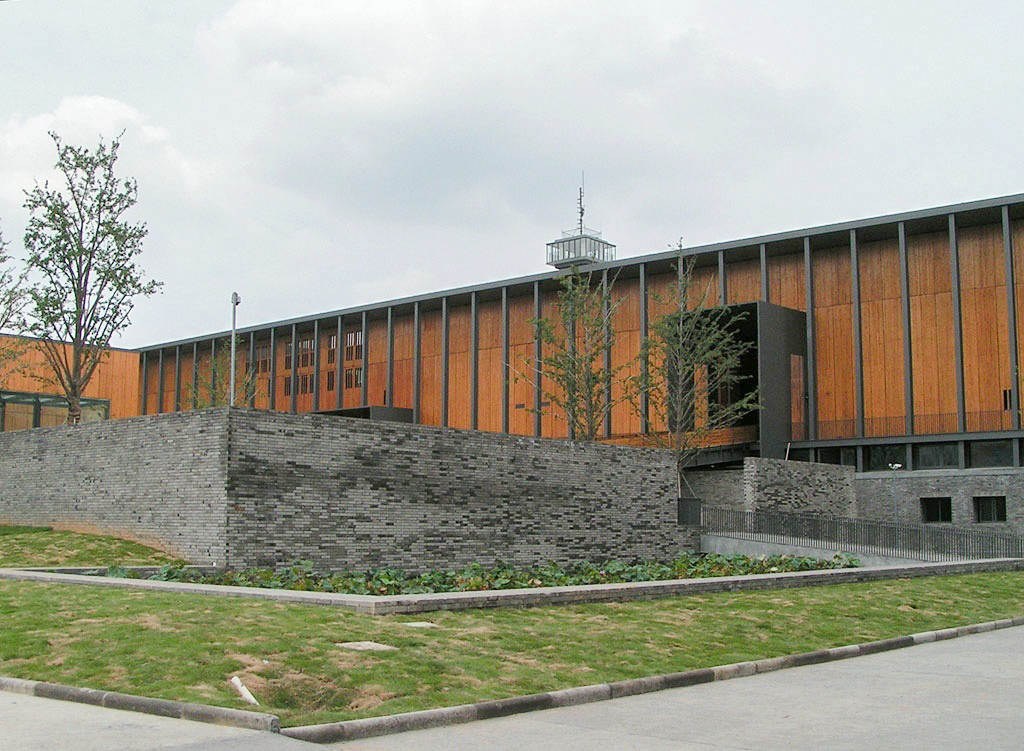 Ningbo Contemporary Art Museum, China. Wang Shu / Amateur Studio, architects.